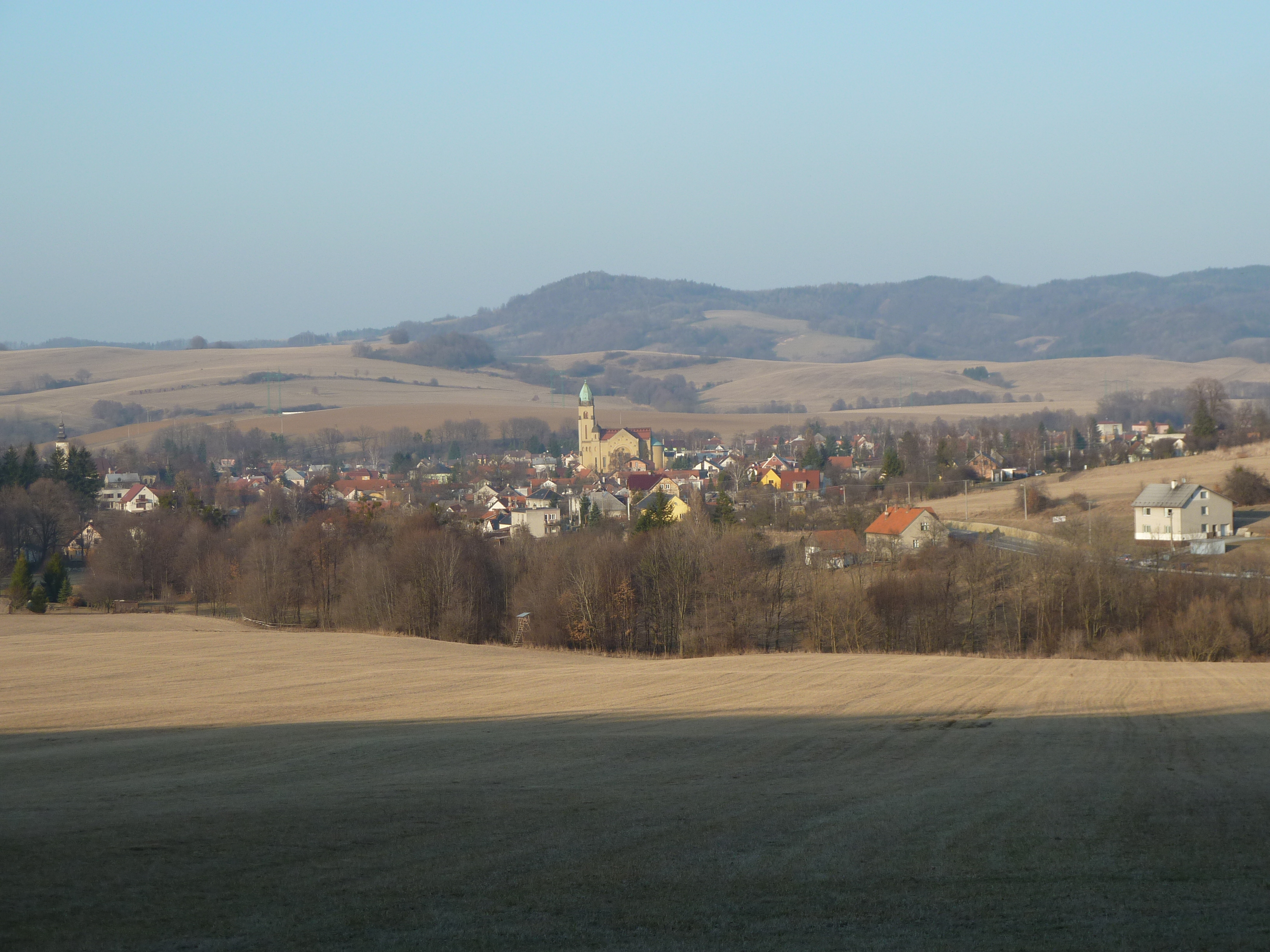 village Hodslavice (Nový Jičín district, north-eastern Moravia, Czech Republic)